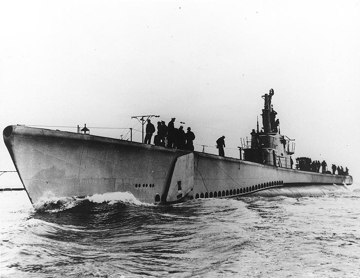 USN-Submarine USS Lagarto (SS-371) during trials, late 1944 Removed caption read: Photo # NH 79774 USS Lagarto underway, circa later 1944